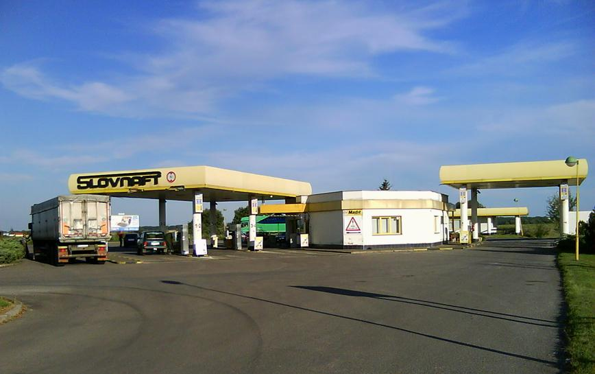 Slovnaft petrol station (Kochanovská Street 1663/154), near to European route E50, Town of Sečovce